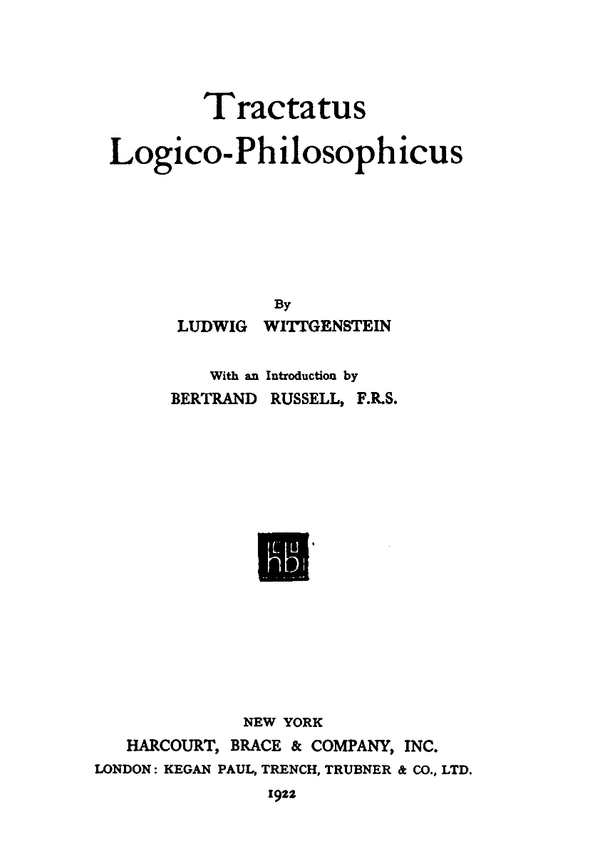 Title page of the first English-language edition of Wittgenstein's Tractatus, simultaneously published in the US by Harcourt and the UK by Kegan Paul (later Routledge).